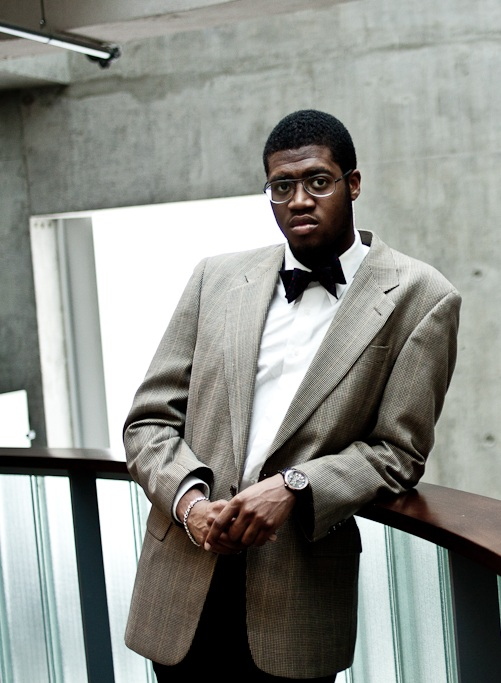 This is a photo of Andrew Nathaniel Forde, taken for press releases concerning his Harry Jerome Award